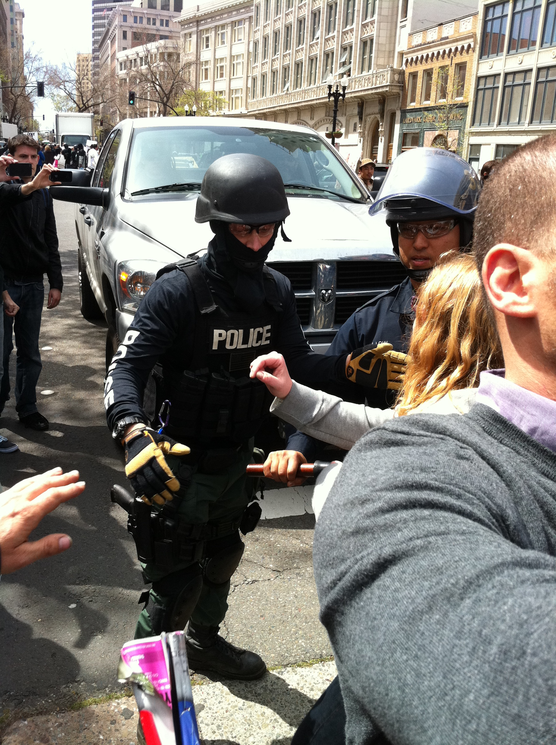 Masked DEA agent attempting to move a protester during a federal raid at Oaksterdam University in Oakland, on April 2nd 2012